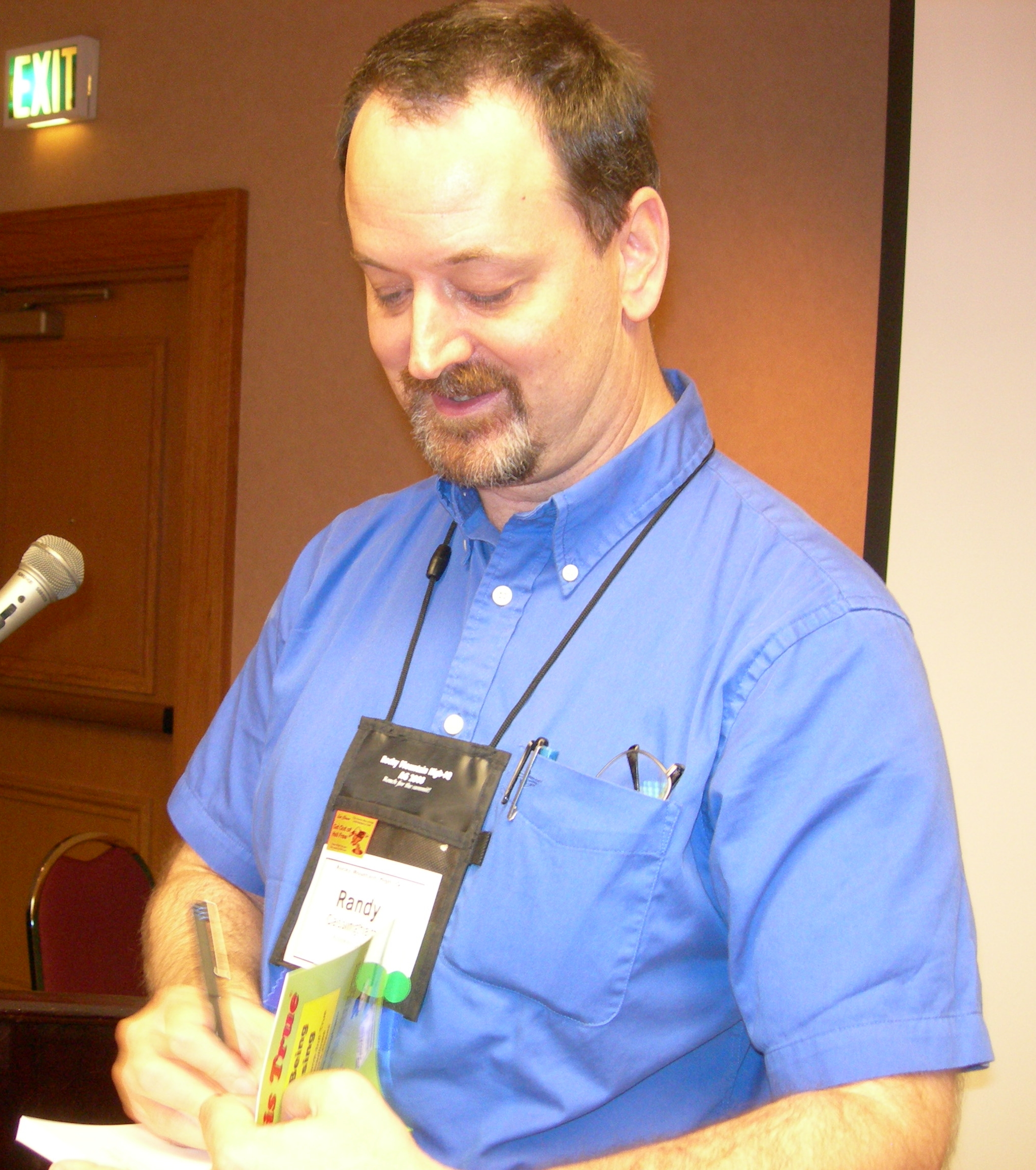 Author/Internet publisher Randy Cassingham at 2008 American Mensa Annual Gathering in Denver, Colorado.